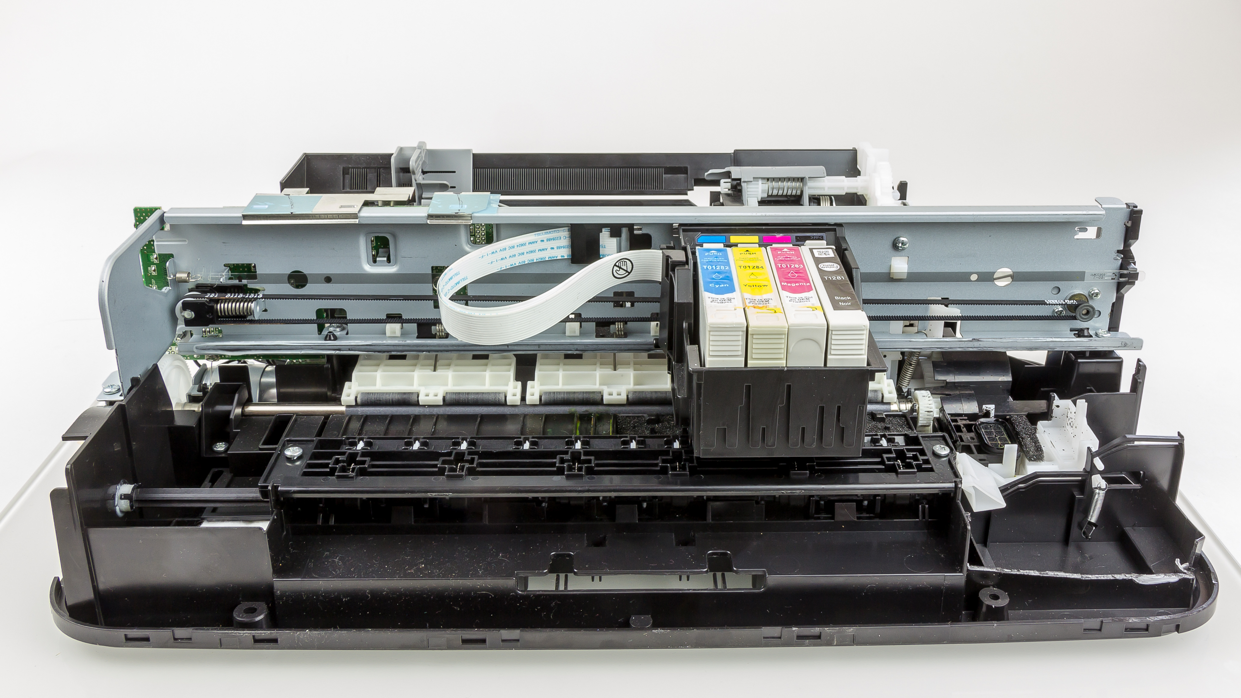 Epson Stylus S22 - case removed, front view